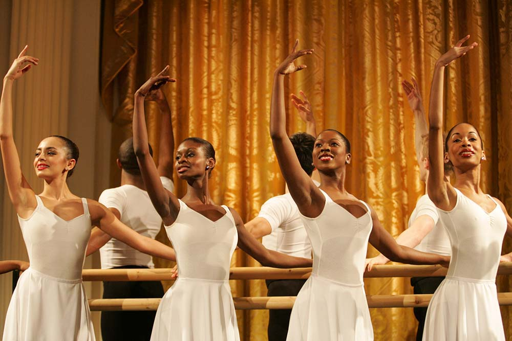 Young dancers from The Dance Theatre Harlem perform during a dinner held at the White House Monday, February 6, 2006. The Dance Theatre of Harlem offers training to more than 1,000 young adults annually and has taken arts education to young people all over the world.